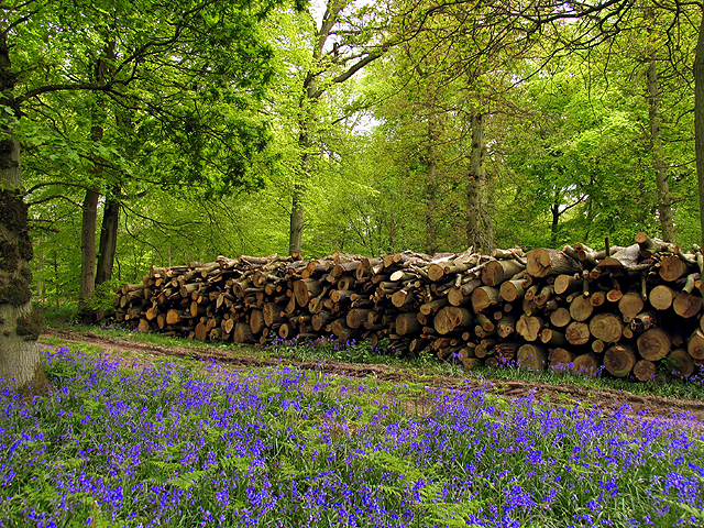 Long Copse. This grid square has quite a few copses and this picture is taken from inside the copse, looking more or less north east towards the road